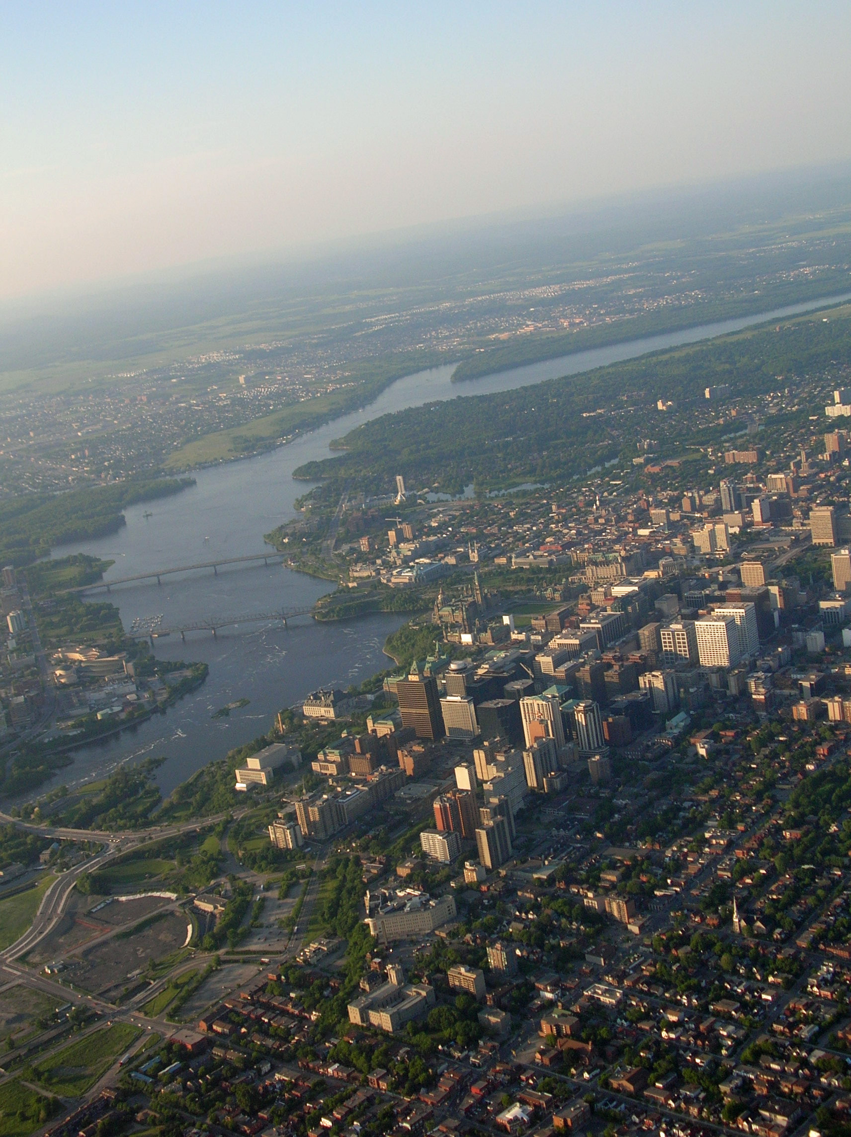 Downtown Ottawa, parts of Gatineau, Quebec and the Ottawa River, as viewed from a hot air balloon.